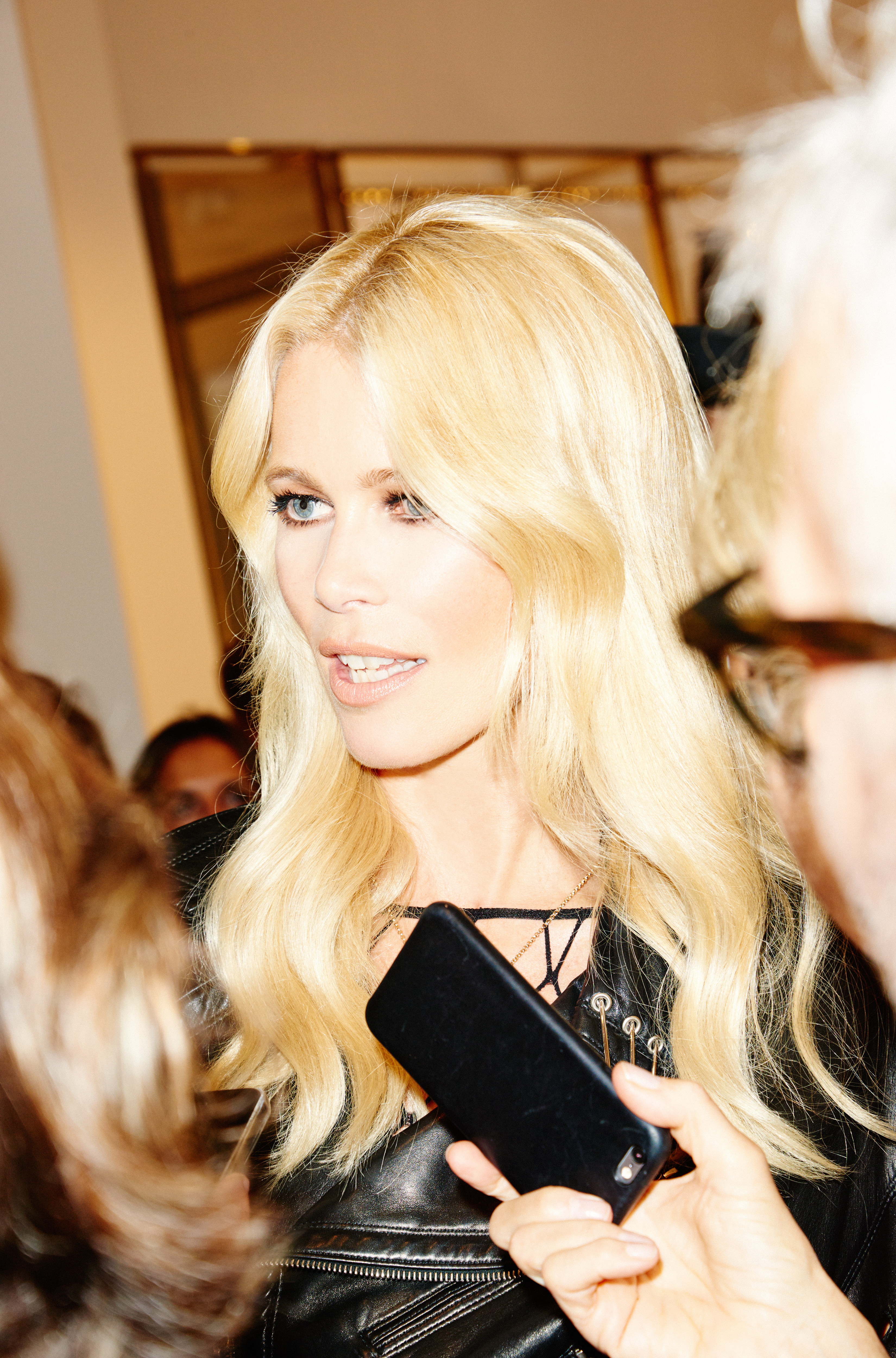 Claudia Schiffer in Milan 2009